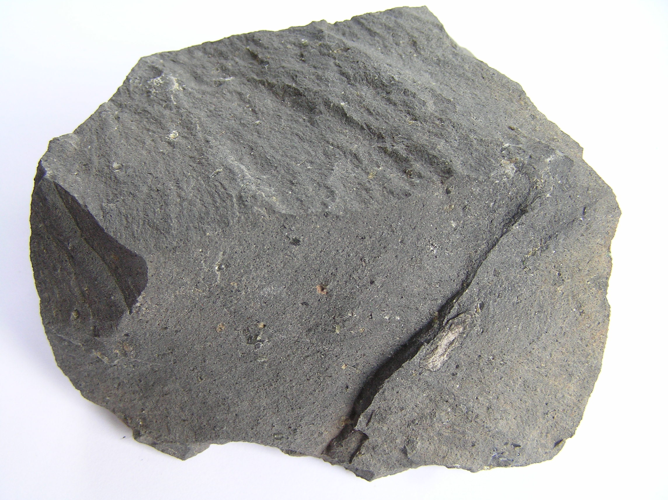 Nephelinit